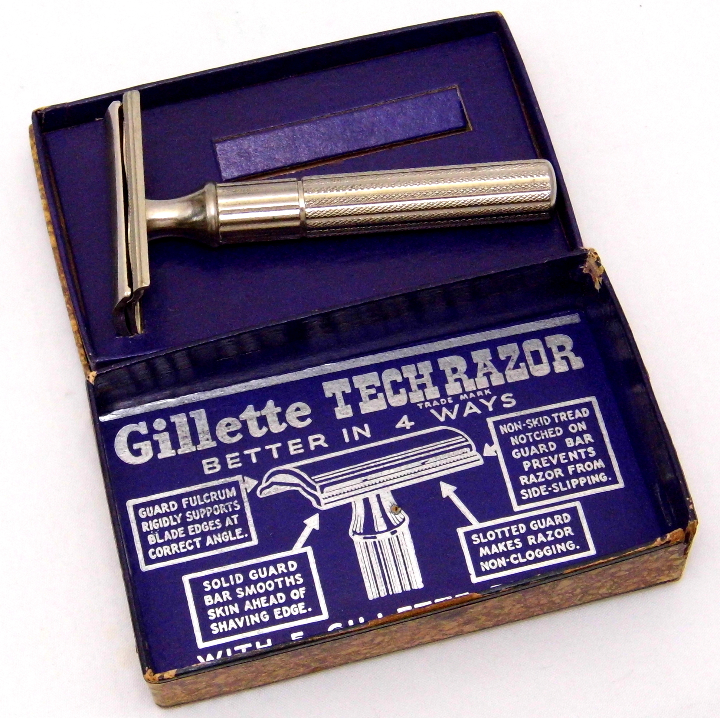 A vintage shaving razor